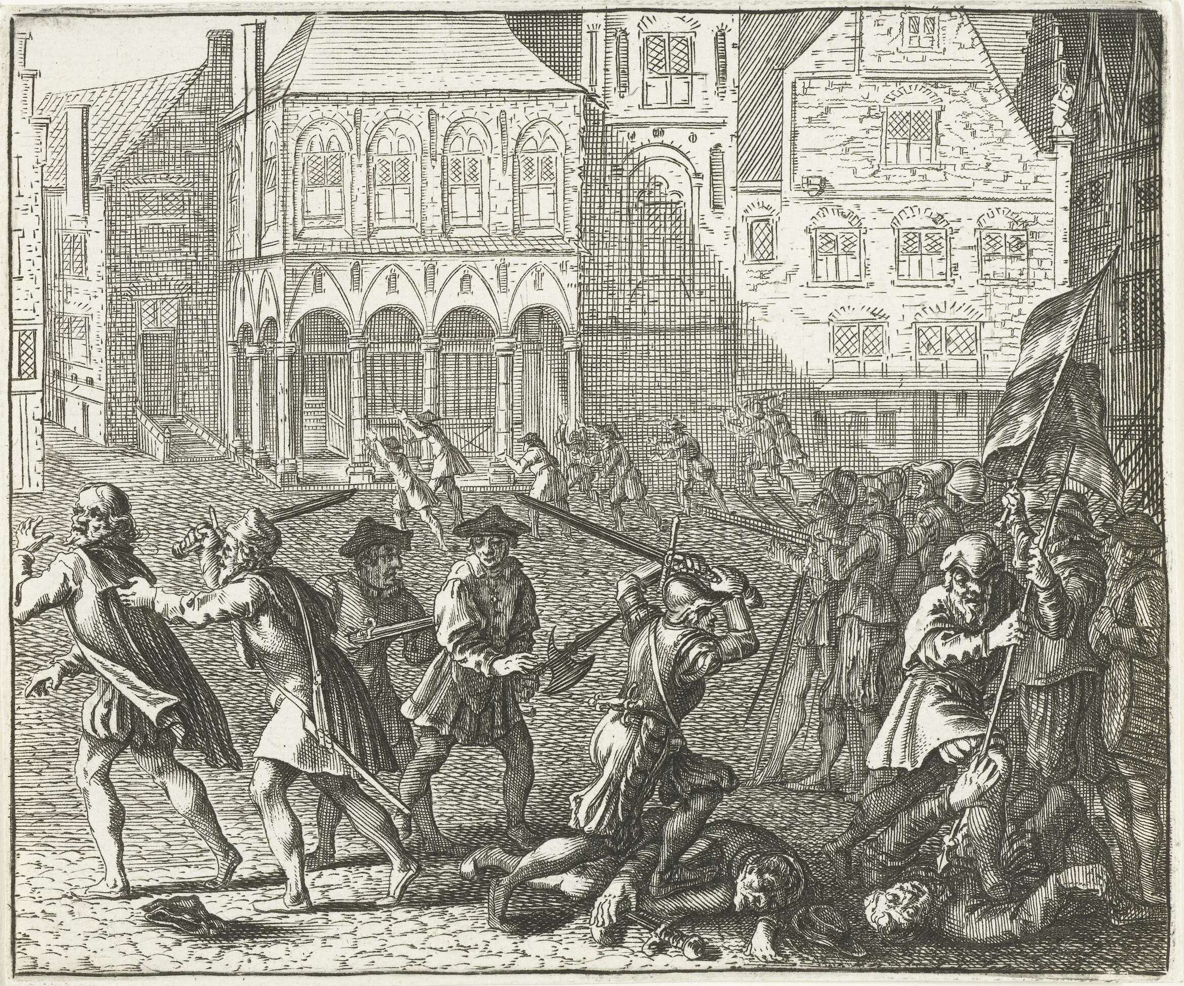 Suppression of the Anabaptists' occupation of the Amsterdam city hall on 10 May 1535, part of a series of 8 prints after a painting by Barend Dircksz.